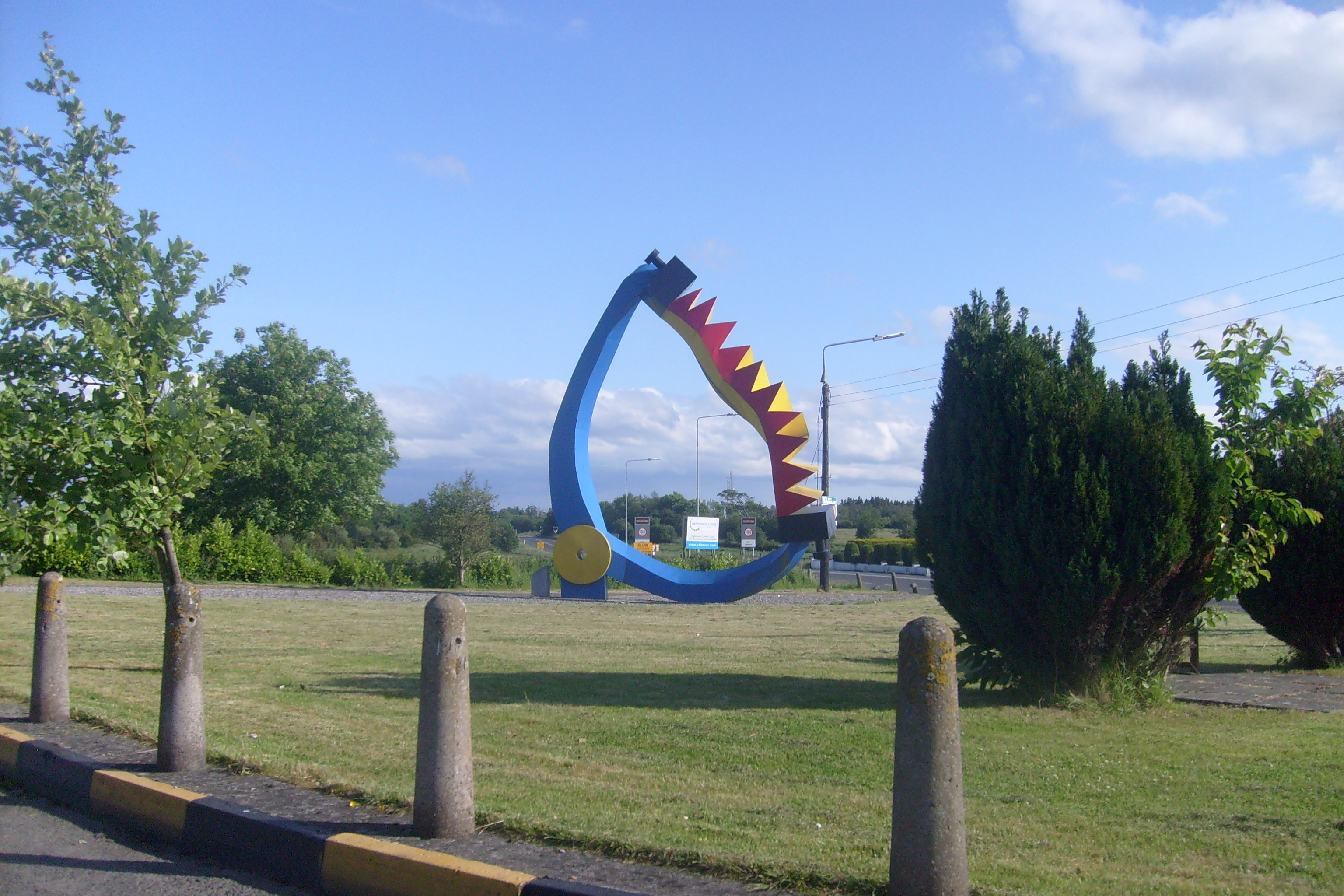 Accordion structure, Ballindine, Co Mayo, Ireland